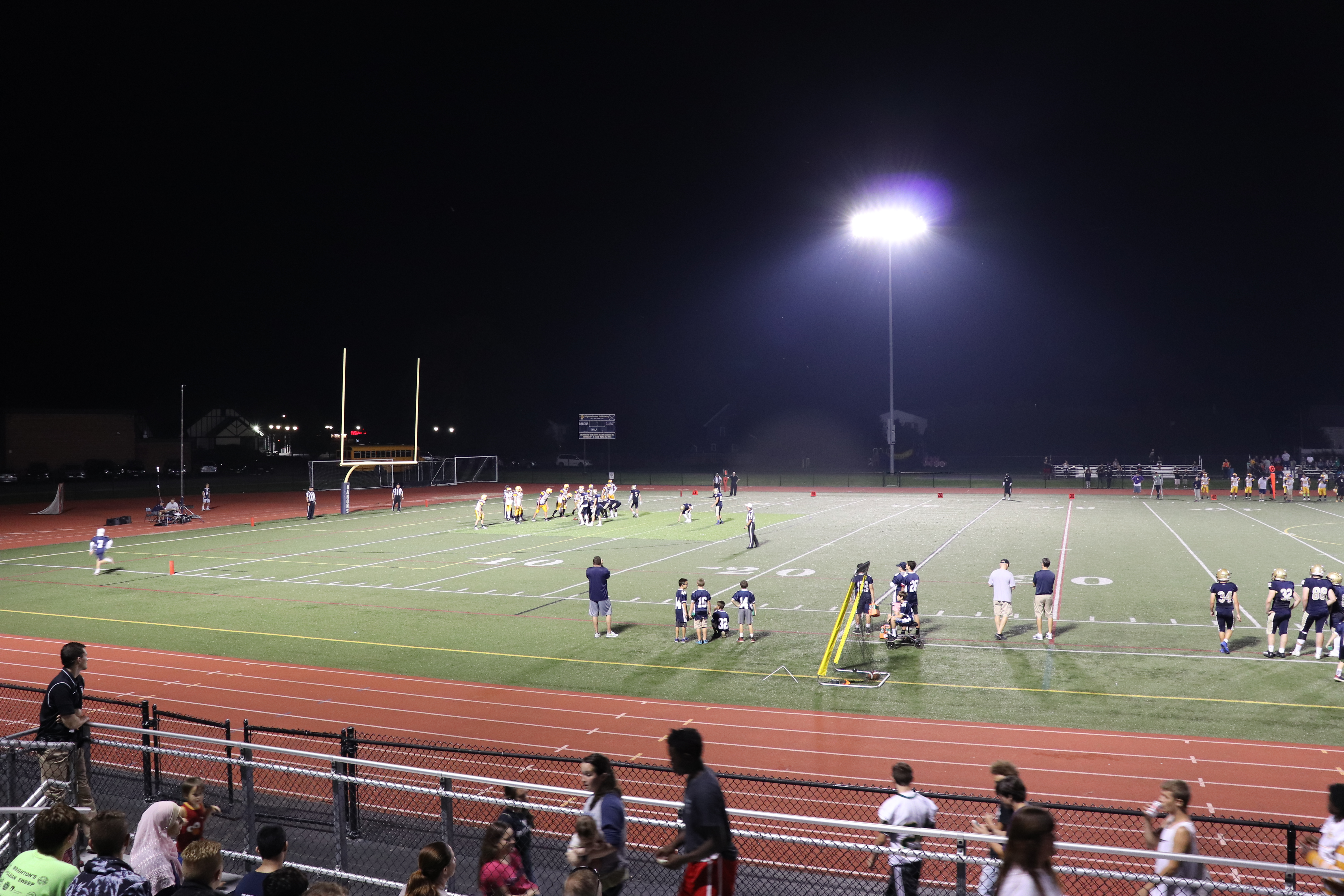 Brighton Barons line up for a field goal attempt against the Greece Olympia/Greece Odyssey Spartans at Brighton High School (Rochester, New York)'s Reifsteck Field